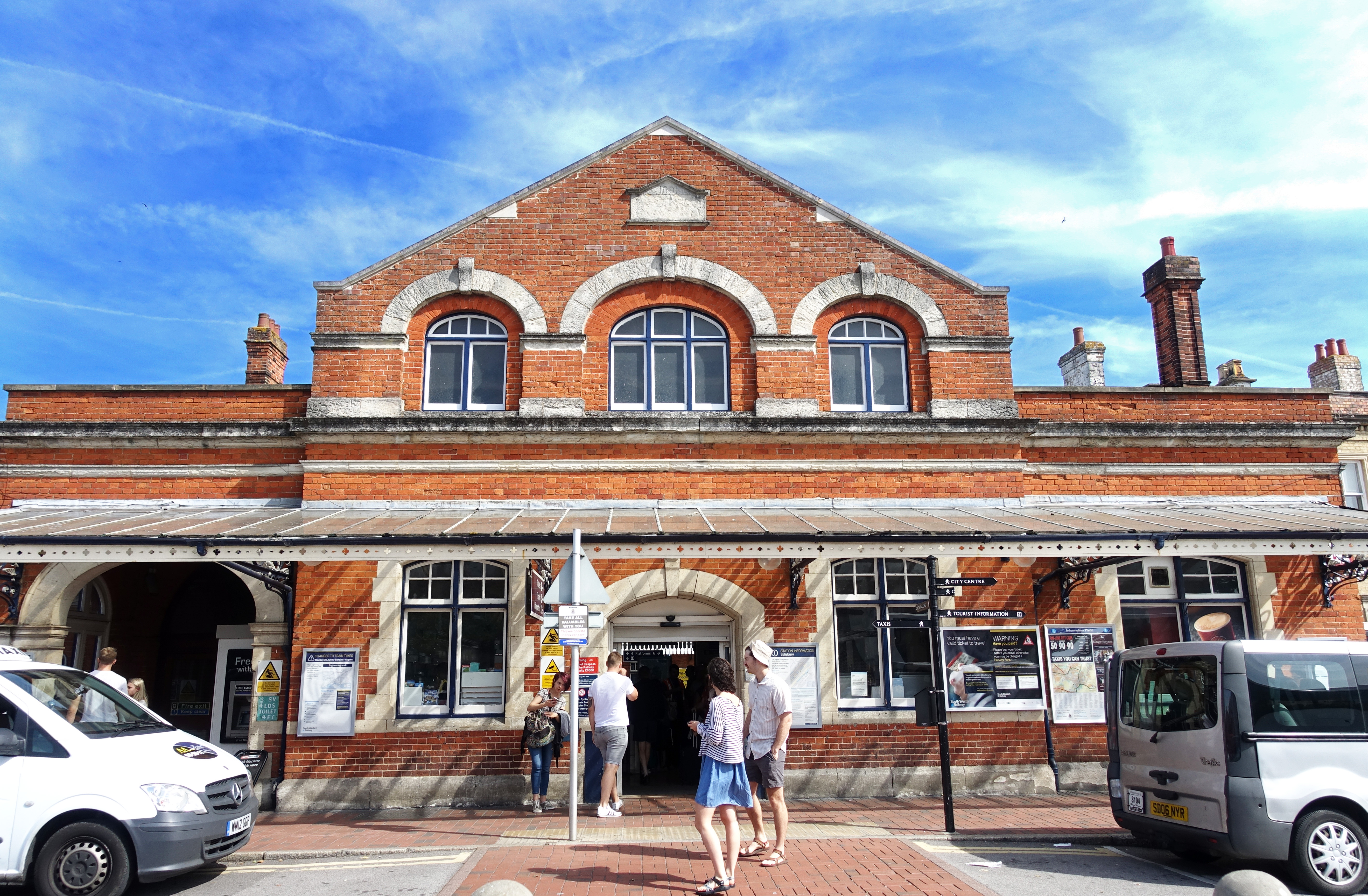 Salisbury railway station.